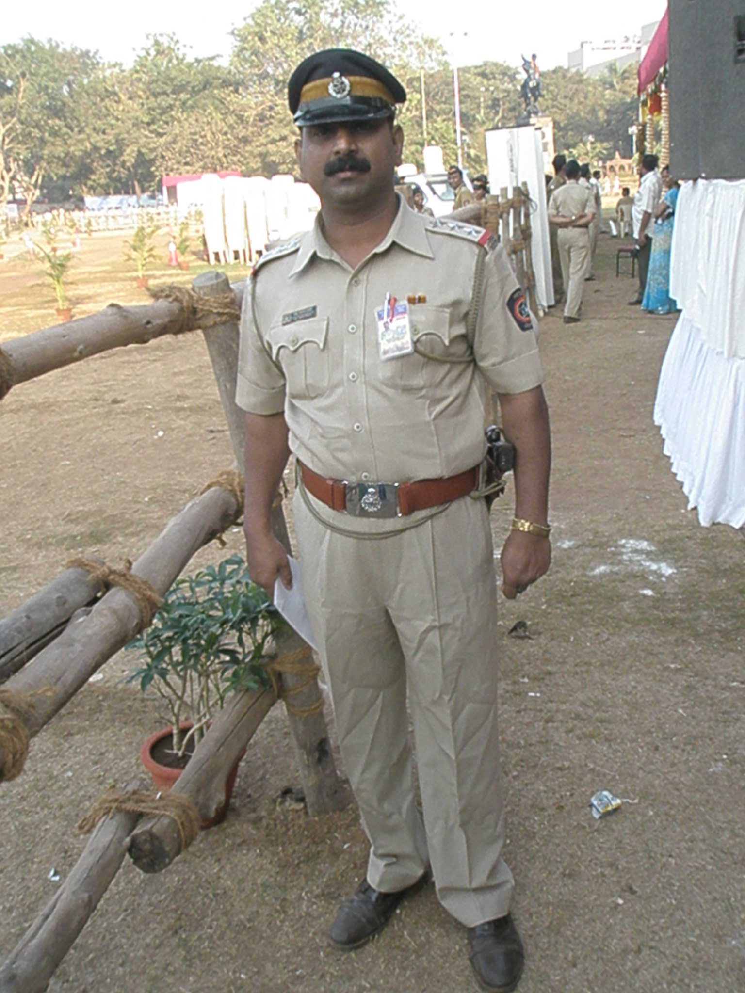 Photo was taken on 26 Jan 2009. During Republic day Parade Mumbai with Permission of Inspector taken by en.User:Suyogaerospace